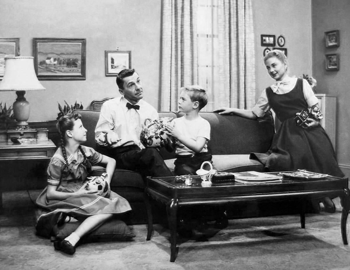 Photo from the short-lived NBC television series Norby. David Wayne played banker Pearson Norby, his wife, Helen, was played by Joan Lorring. His son, Hank, was played by Evan Elliot, and his daughter, Diane, was played by Susan Hallaran. Norby was notable because it was the first network television series filmed and broadcast in color. Its sponsor was the Kodak Company (see Kodak camera in Lorring's hand.)